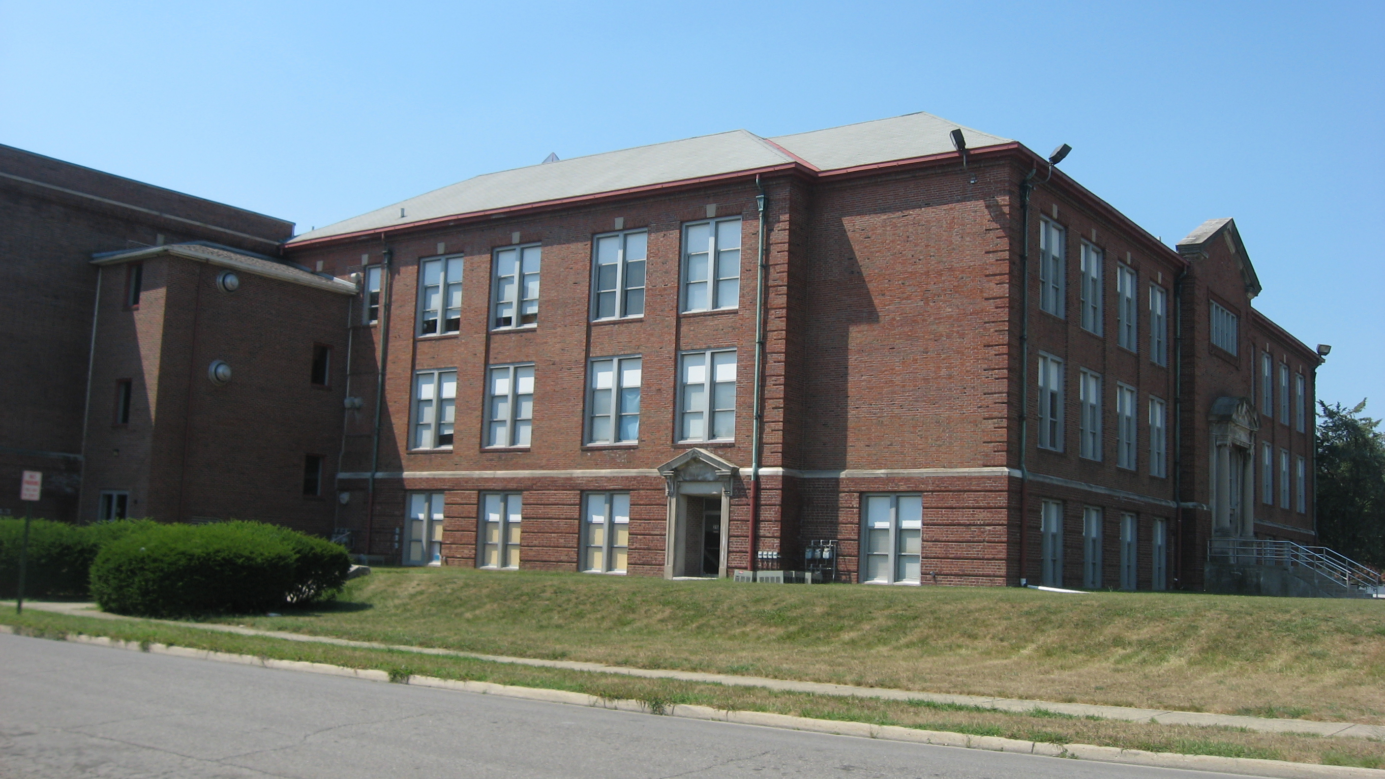 Front of the former Shelbyville High School, located on Second Street between Tompkins and Meridian Streets in Shelbyville, Indiana, United States. Built in 1911, it is listed on the National Register of Historic Places.